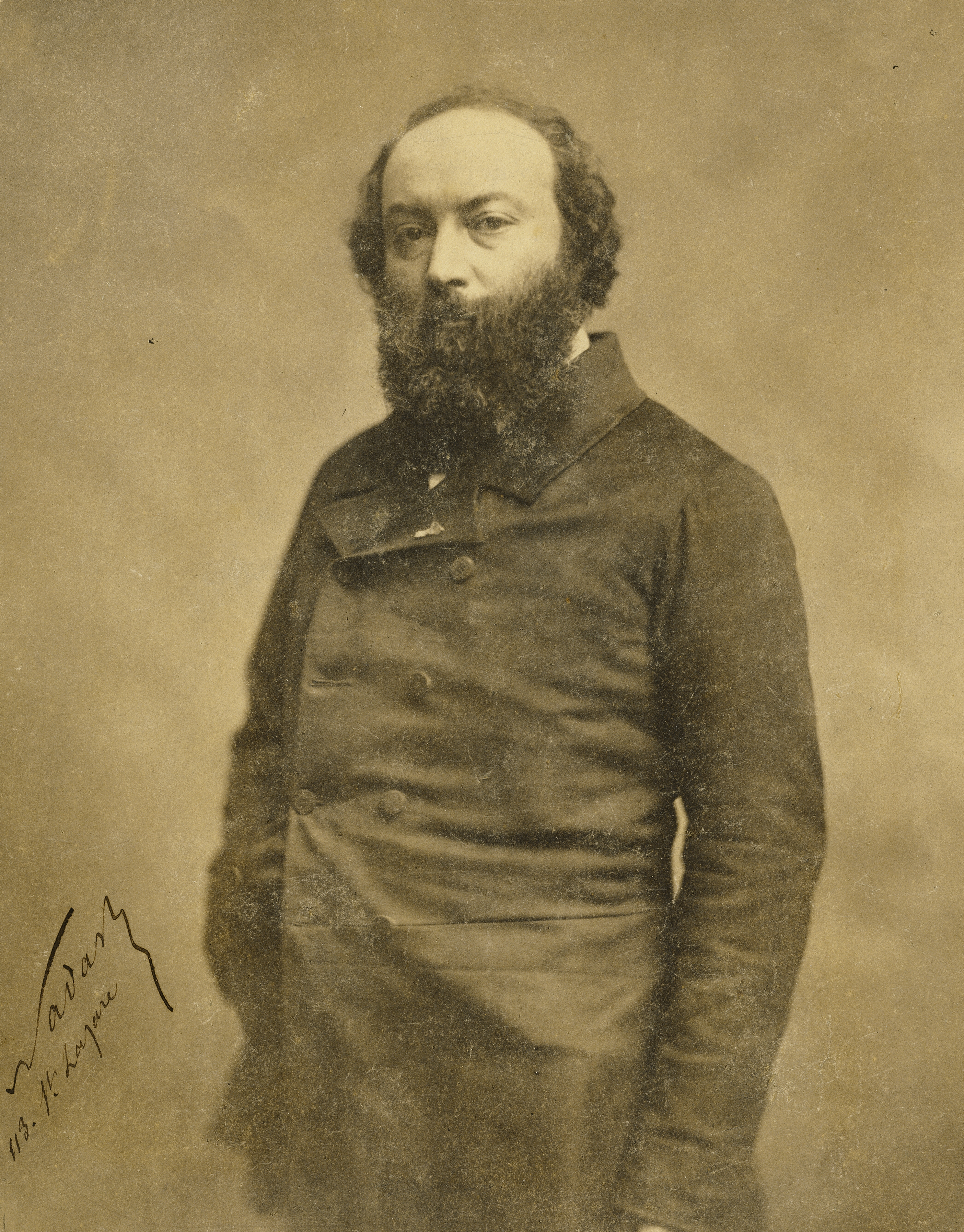 Photo of Theodore Rousseau by Nadar